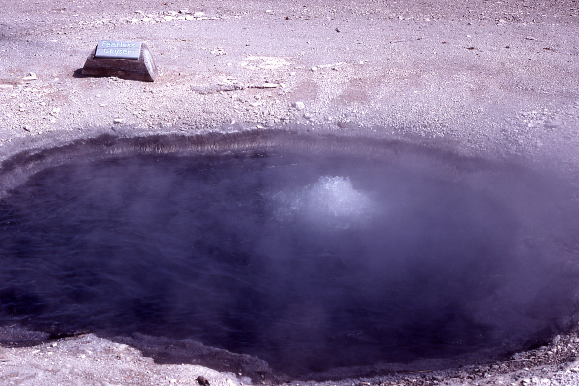 Fearless Geyser, Norris Geyser Basin, Yellowstone National Park, Wyoming